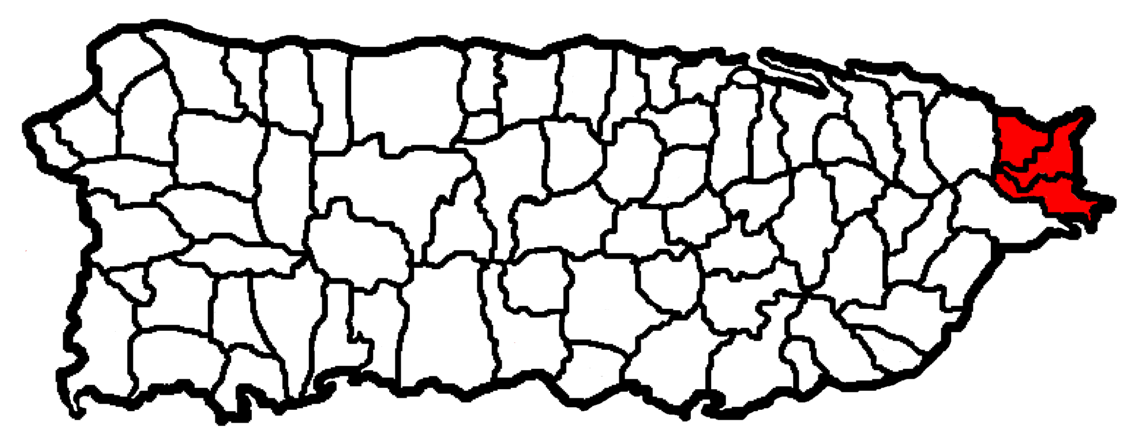 Map of Puerto Rico highlighting the Fajardo Metropolitan Statistical Area. Created with the GIMP. Adapted from Image:Map_of_the_78_municipalities_of_Puerto_Rico.png by Alessandro Cai (OliverZena).